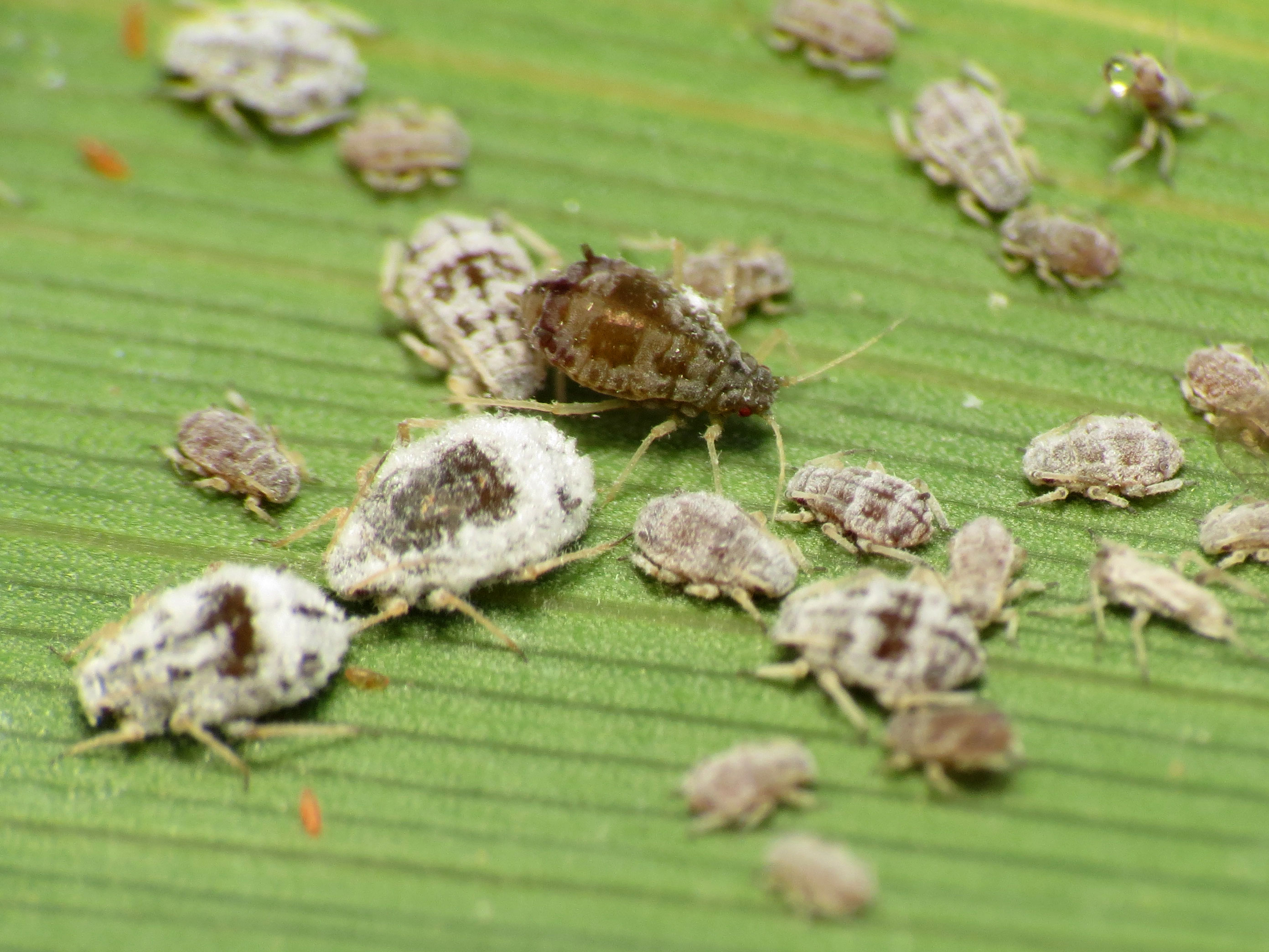 I think this is Rhopalosiphum padi, on Phragmites . Els Poblets, Alicante, Spain.